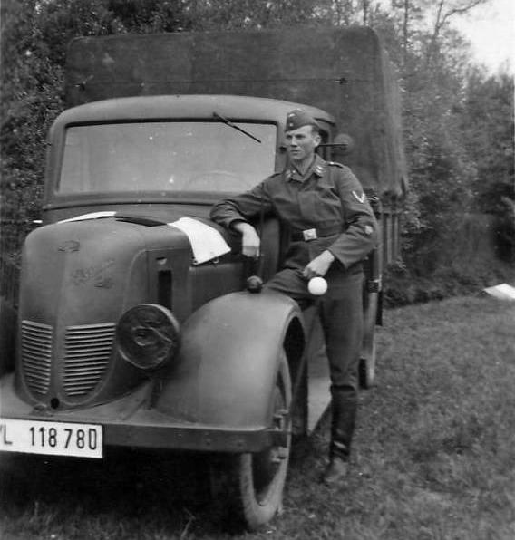 Phänomen Granit 25 of the second series from 1936 as truck of the Luftwaffe before World War II